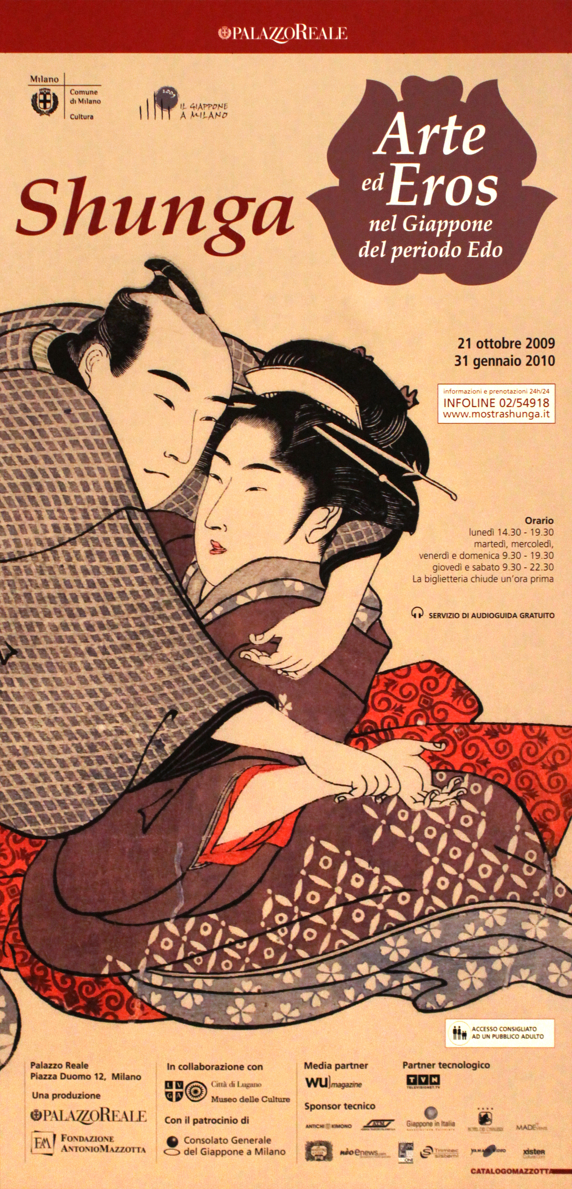 Exhibition: Shunga Arte ed eros in Giappone nel periodo Edo at Palazzo Reale, Milan, 21/10/2009 - 31/01/2010